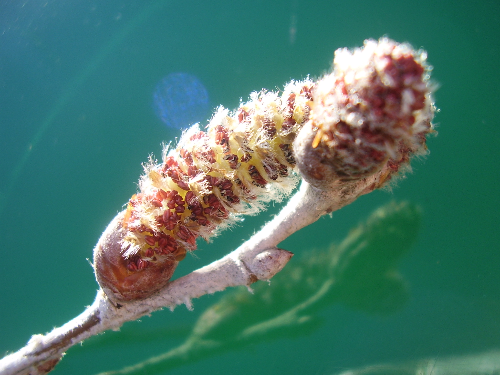 Populus alba own work Rob Hille